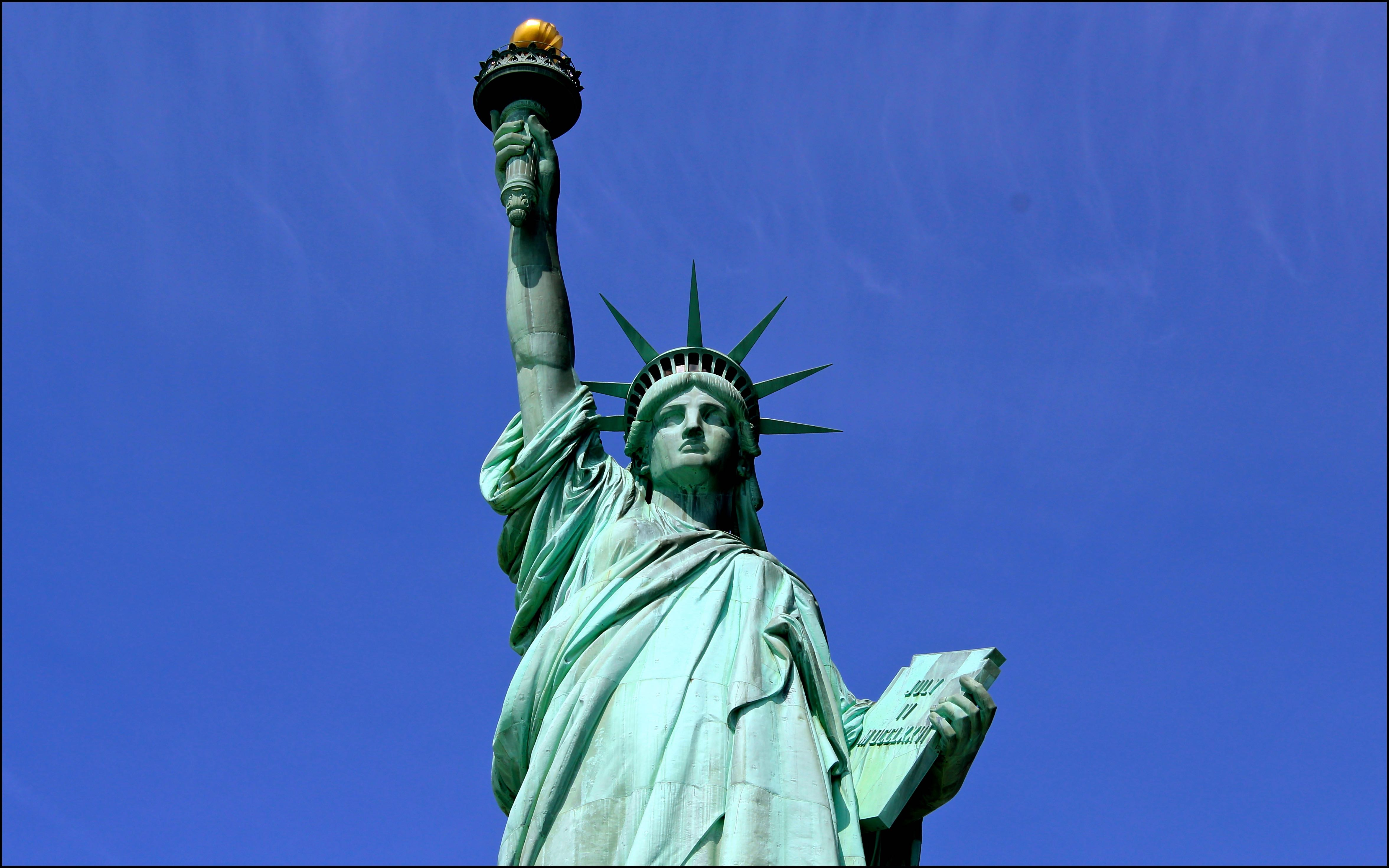 The file is a picture of Statue of Liberty, New York. I could describe it as - "Liberty - of the People, by the People, for the People"